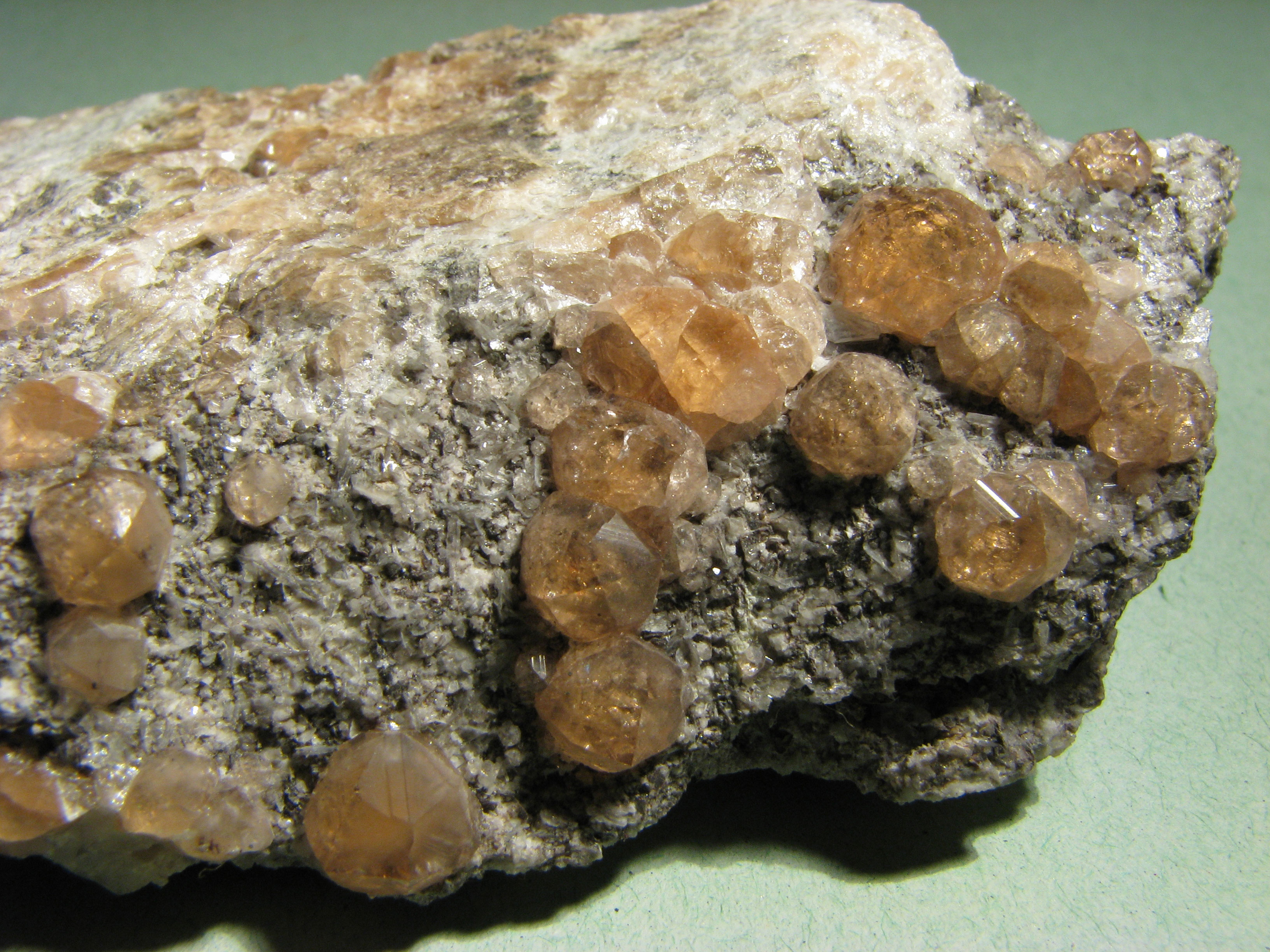 Grossularite var. hessonite - Asbestos, Quebec, Canada